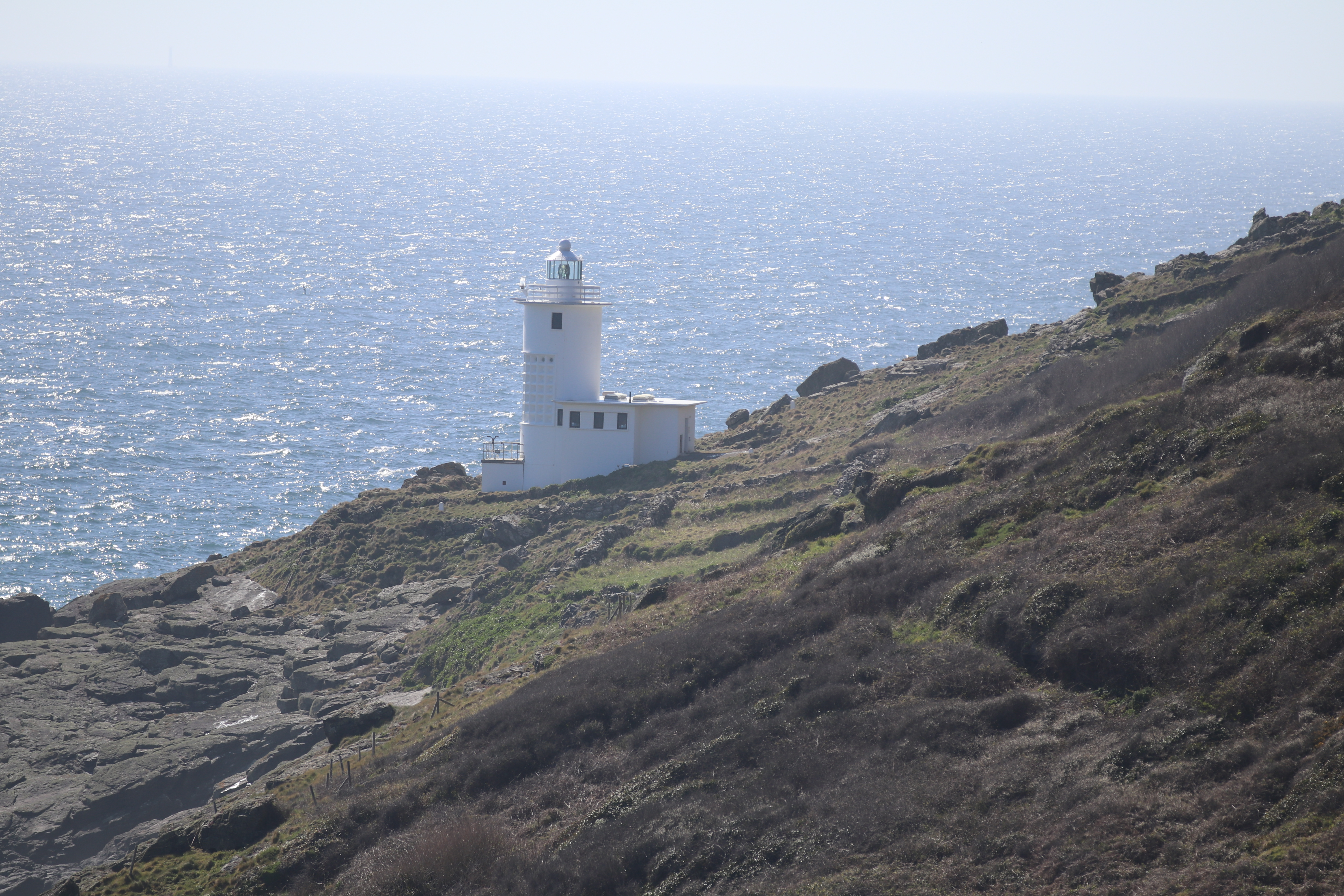 Tatterdoo lighthouse Lamorna Cornwall This photo was taken by Tom Corser and is © Tom Corser 2020. This photo may be reproduced under the terms of the Creative Commons Attribution-ShareAlike 3.0 Unported Licence [1] (unless otherwise stated). Please credit this photo Tom Corser If using this photo, make sure you properly credit and specify the licence that this photo is licensed under. (E.g. "Photo by Tom Corser Licensed under Creative Commons Attribution-ShareAlike 3.0 Unported Licence: If you would like to use this photo under a different license, please contact me via or . Attribution: Tom Corser